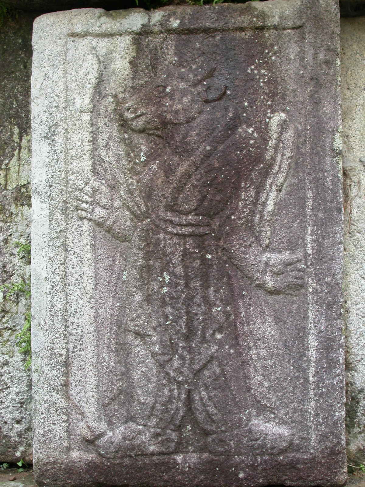 Tomb of General Kim Yusin